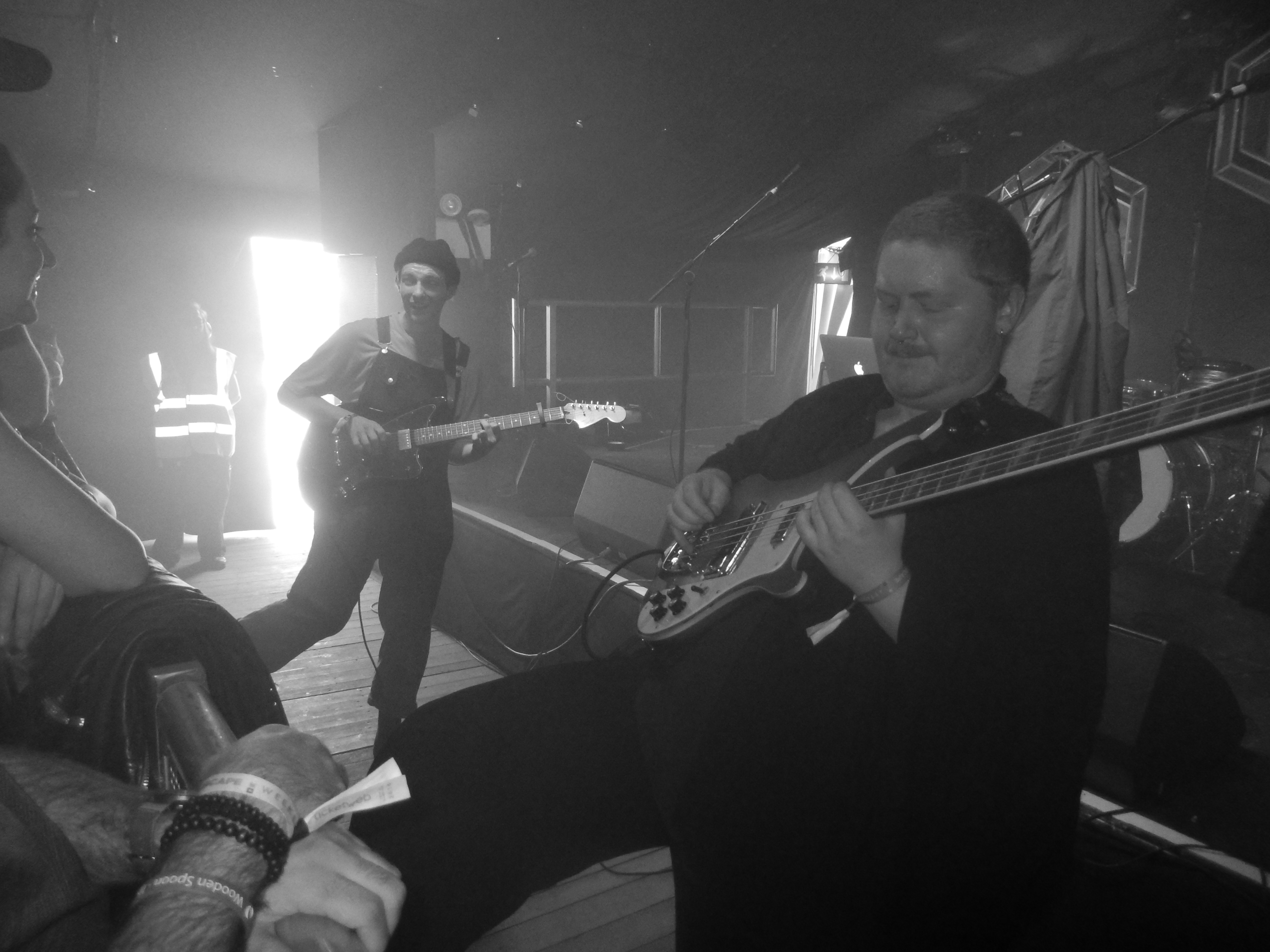 Hers, Beach House, Brighton (Great Escape 2018)